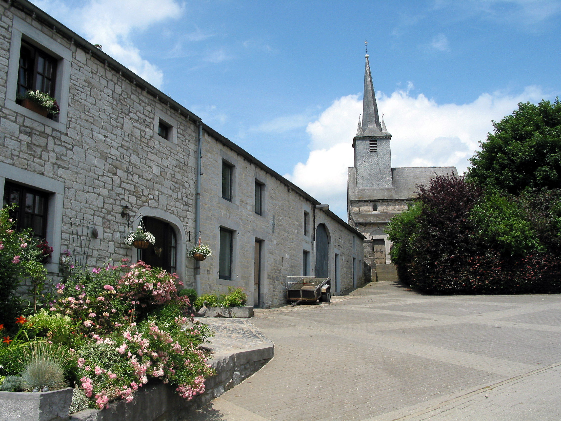 Chardeneux (Belgium), neighbpurhood of the Holy Virgin Nativity chapel (XI - XIIth centuries). Walon: Tchaurdèneû (Bèljike), vèjinadje dol tchapèle dol Nativitè dol Sainte Viërje (XI - XII in.me sièkes).